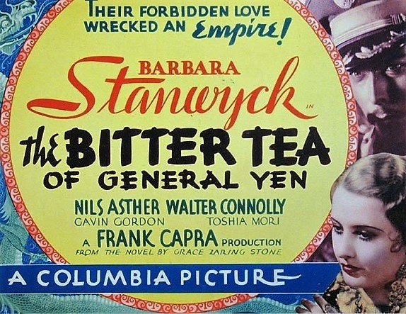 Poster for the American drama film The Bitter Tea of general Yen (1933).